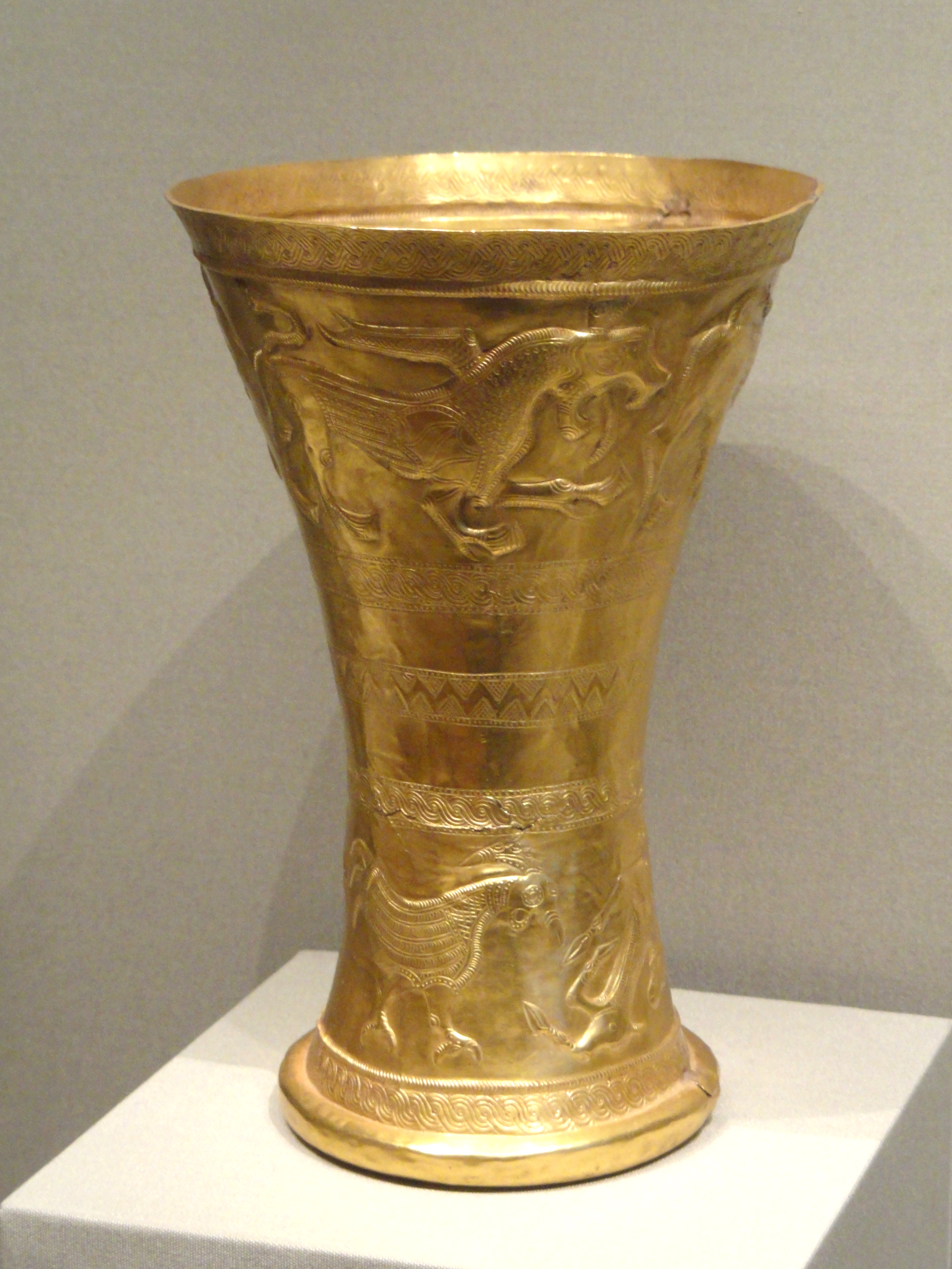 Exhibit in the Cleveland Museum of Art, Cleveland, Ohio, USA. This artwork is old enough so that it is in the public domain.